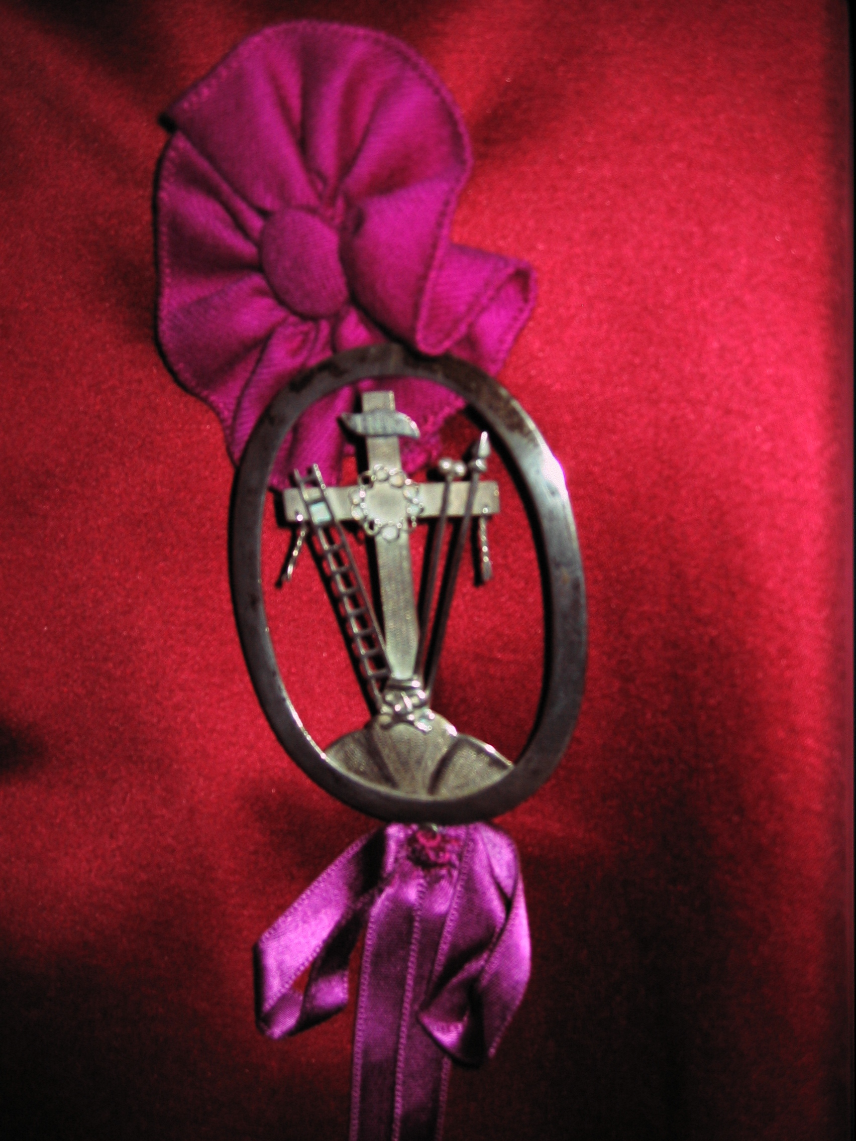 Holy Cross Brotherhood Taranto